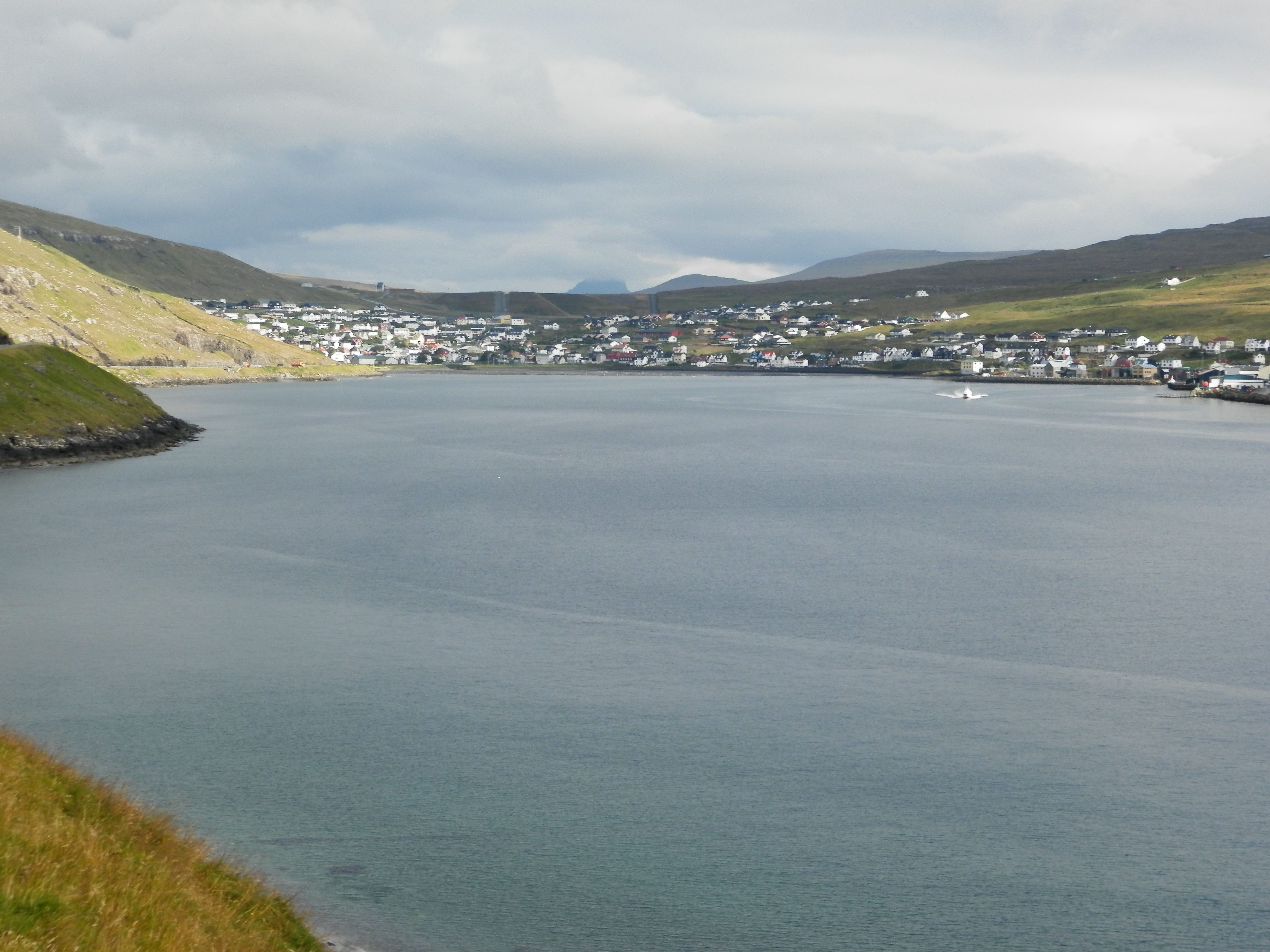 Sørvágur and Sørvágsfjørður in the Faroe Islands on 30 August 2014.